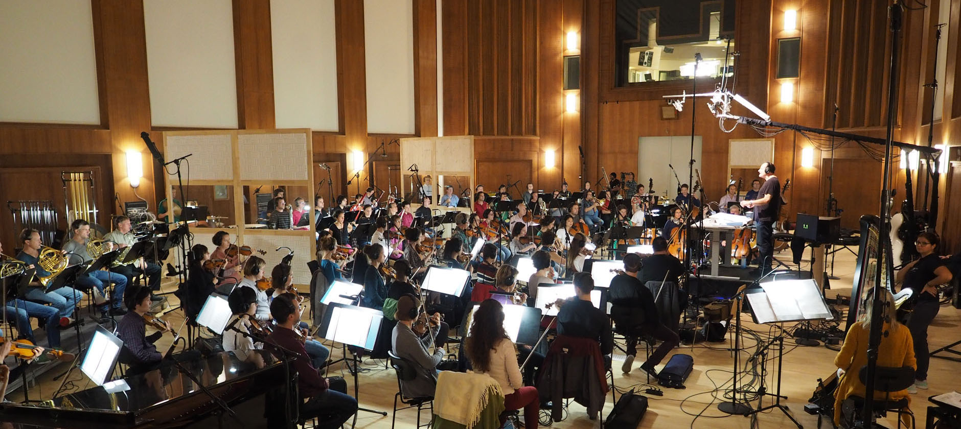 Stage A